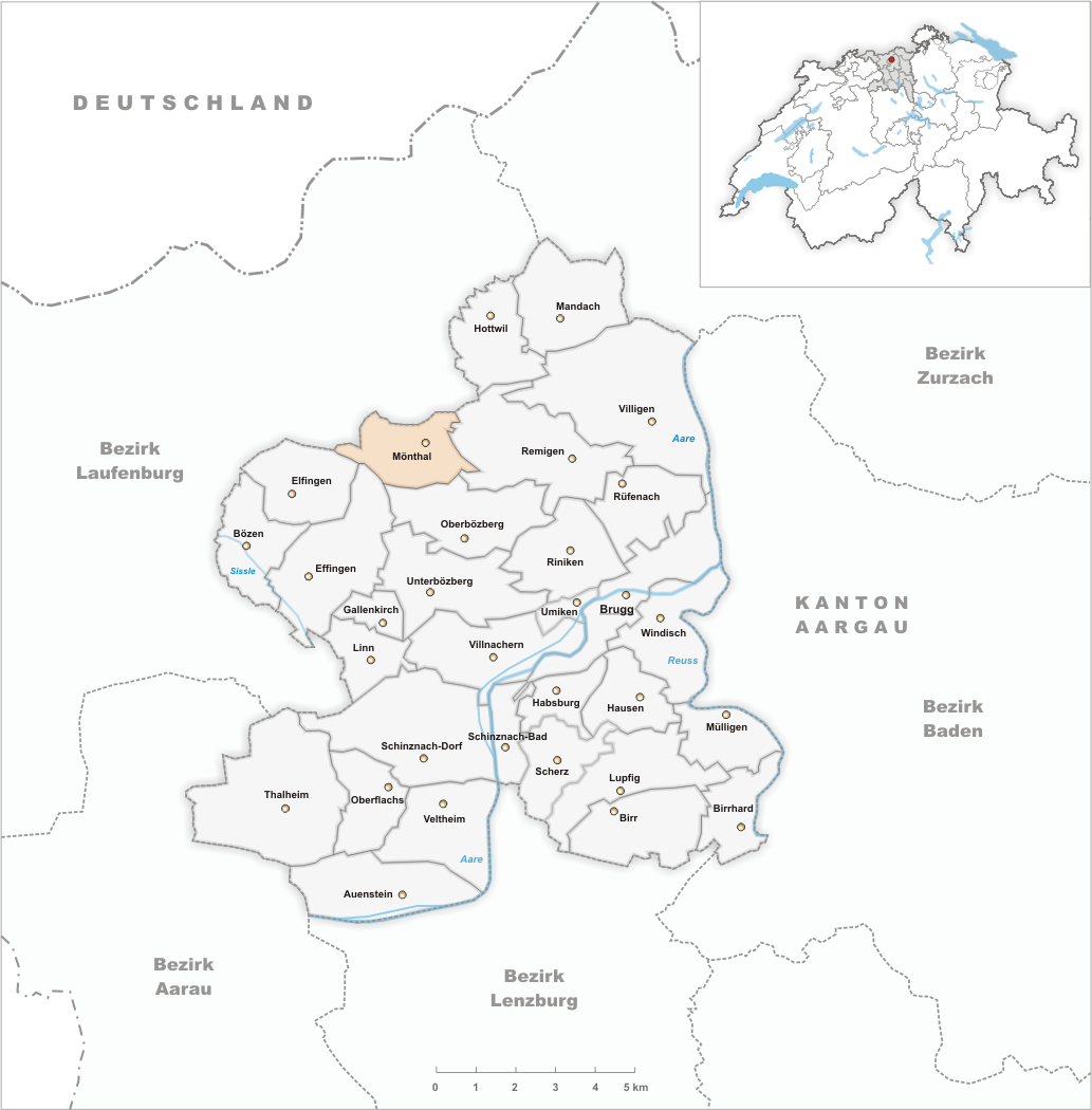 Municipality Mönthal